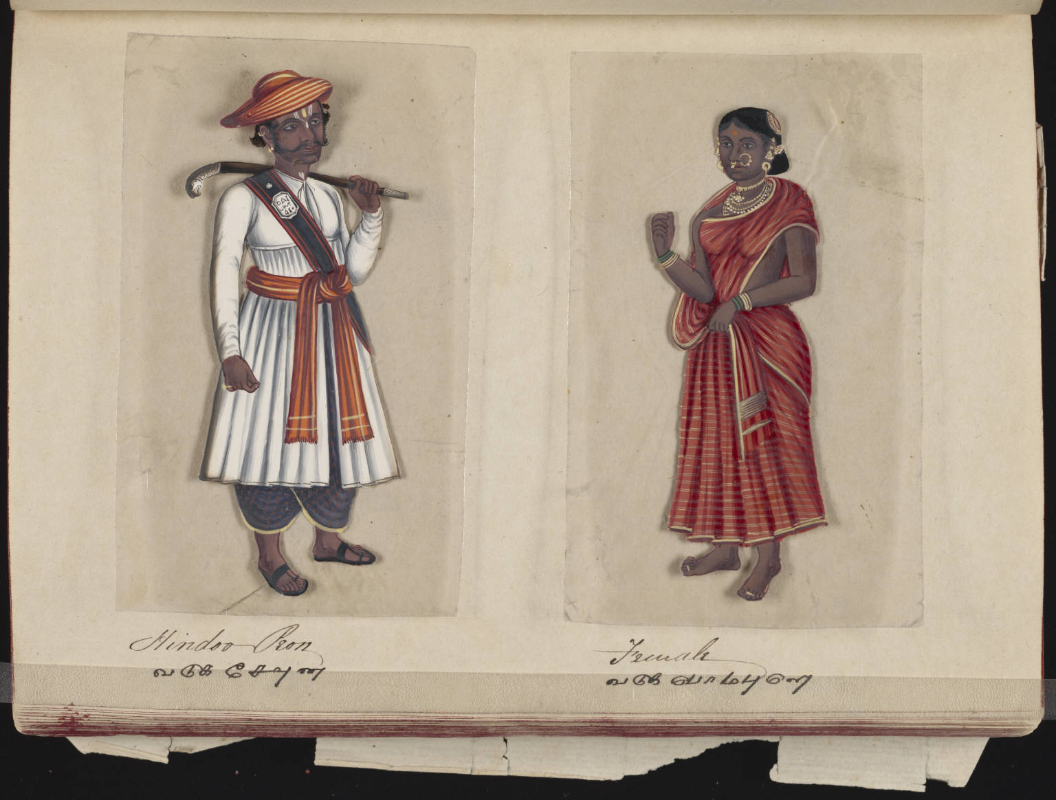 A page from the manuscript Seventy-two Specimens of Castes in India, which consists of 72 full-color hand-painted images of men and women of the various castes and religious and ethnic groups found in Madura, India at that time. Each drawing was made on mica, a transparent, flaky mineral which splits into thin, transparent sheets. As indicated on the presentation page, the album was compiled by the Indian writing master at an English school established by American missionaries in Madura, and given to the Reverend William Twining. The manuscript shows Indian dress and jewelry adornment in the Madura region as they appeared before the onset of Western influences on South Asian dress and style. Each illustrated portrait is captioned in English and in Tamil, and the title page of the work includes English, Tamil, and Telugu.